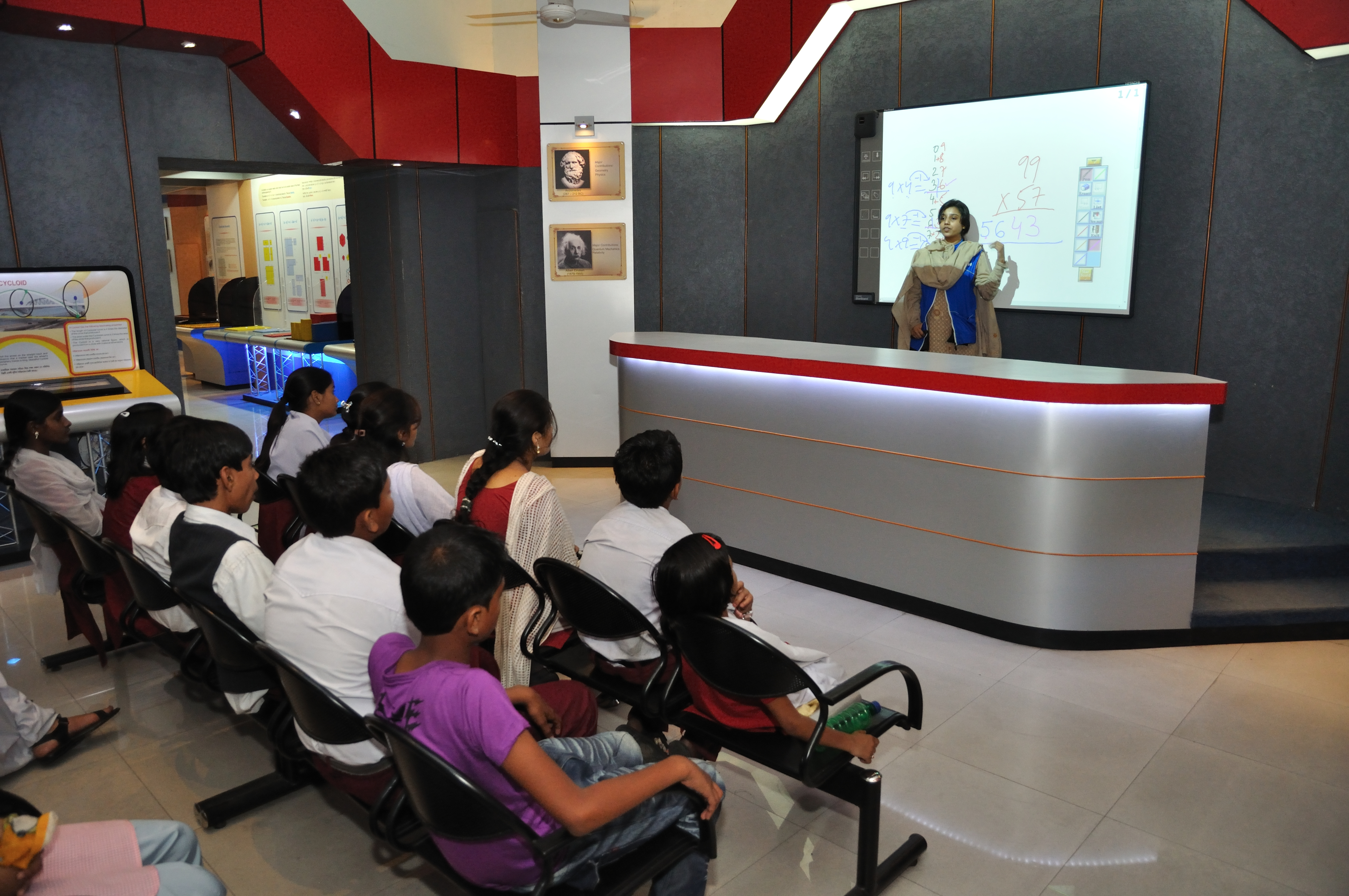 The 'Mathematics' gallery of BITM (Inaugurated on 8 May, 2010) that spread over an area of 300 sq.m with about 54 exhibits, the thematic canvas of the gallery includes a brief history of numbers, number theory, positional number systems highlighting India’s seminal contribution in their development, basic arithmetical operations, geometry of plane and curved surfaces, solid geometry & conics, mathematical functions, probability & statistics, the basic ideas of calculus, mathematics in nature, and a variety of mathematical kits and brain-teasers for kids. A ‘Math Demo Corner’ with facilities for conducting a class session on mathematics by the accompanying school teachers, and a ‘Children’s Activity Area’ add to the attraction of the gallery.